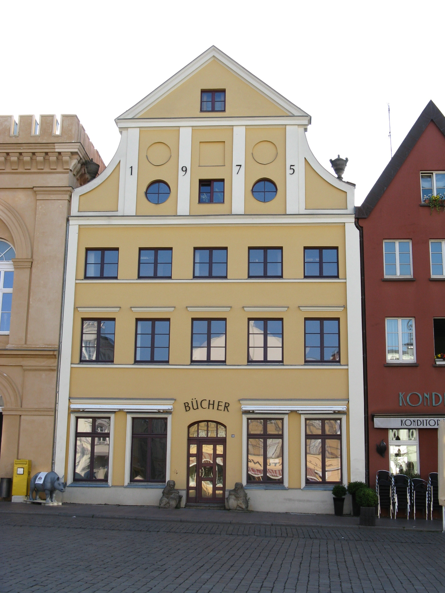 Building at market in Schwerin, Germany - Am Markt 13